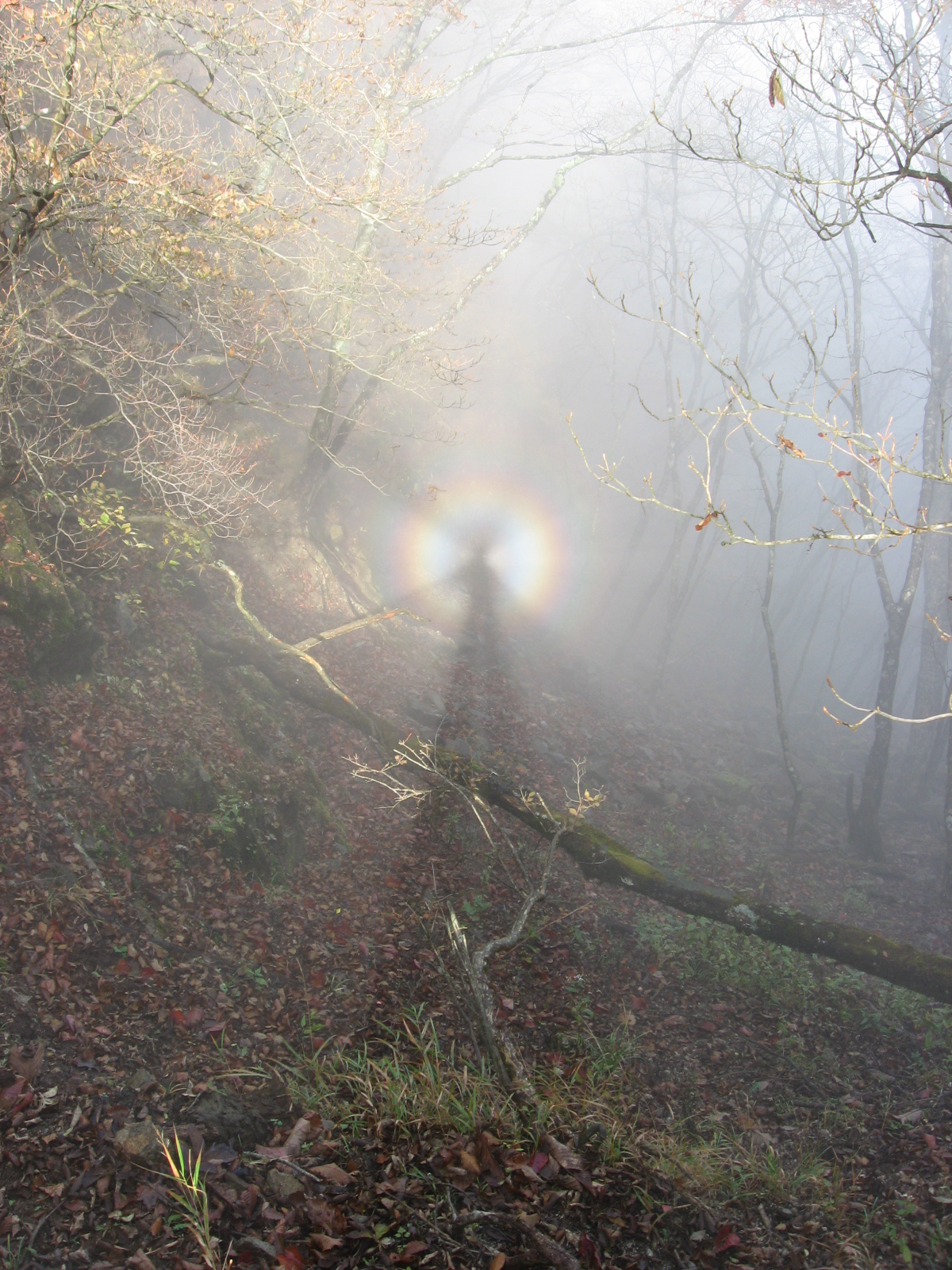 Brocken spectre with a glory